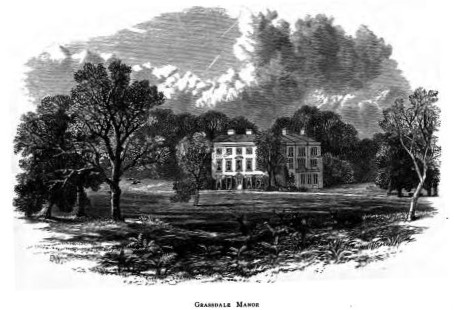 The residence of Arthur Huntingdon from The Tenant of Wildfell Hall as presented in the engraving by Edmund Morison Wimperis.